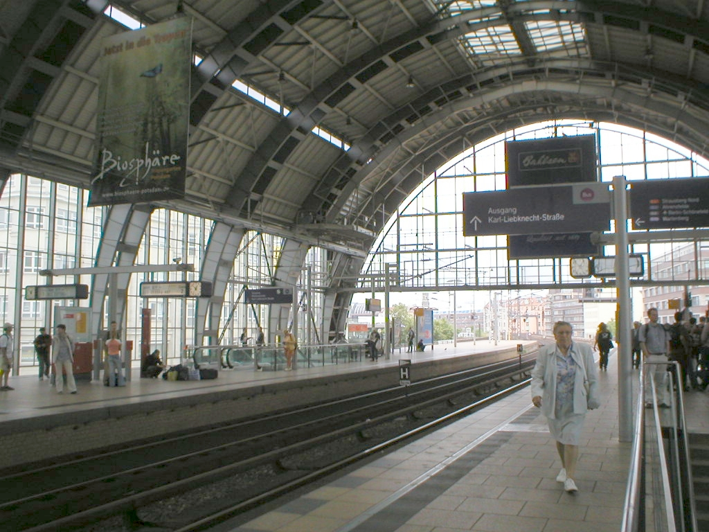 Berlin's train station Alexanderplatz